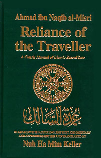 Reliance of the Traveller, Shaykh Nuh Ha Mim Keller